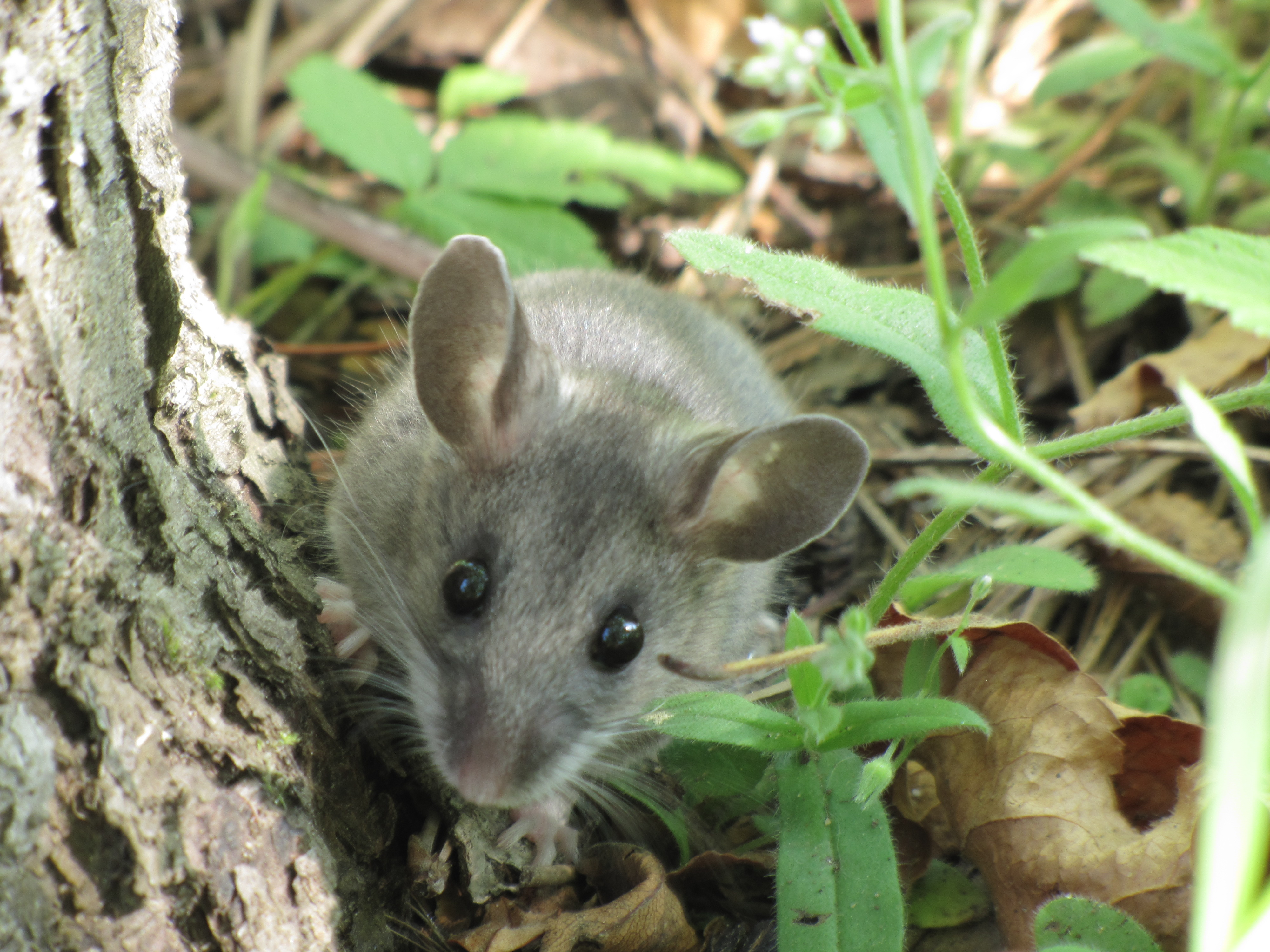 Not all visitors that come into the Visitor Center are human. This deer mouse made its way into a recycling bin and was then released outside. Earlier this season, a garter snake explored the inside of the Visitor Center. Photo -- Intern Dawn Marsh